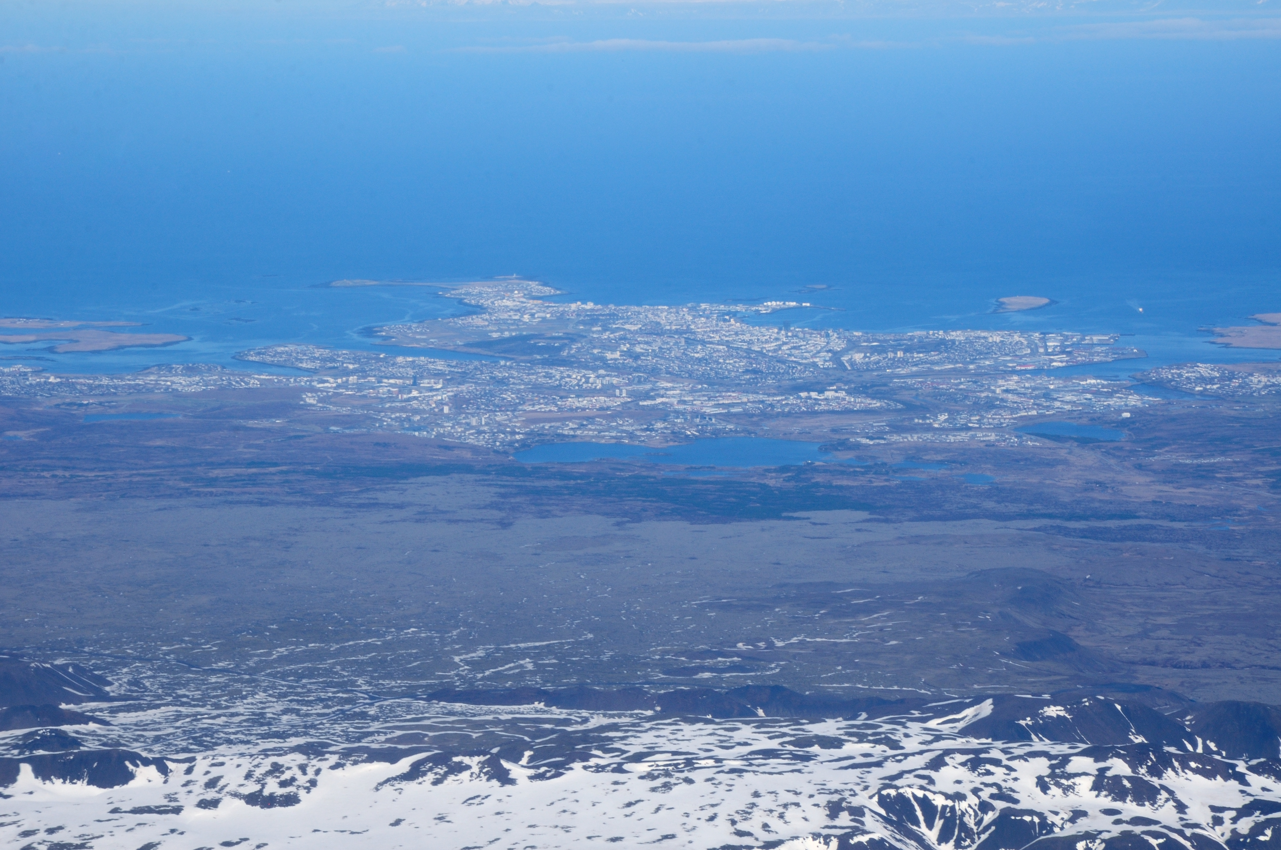 Iceland, picture take during the approach into KEF, unfortunately through a pretty dirty window.